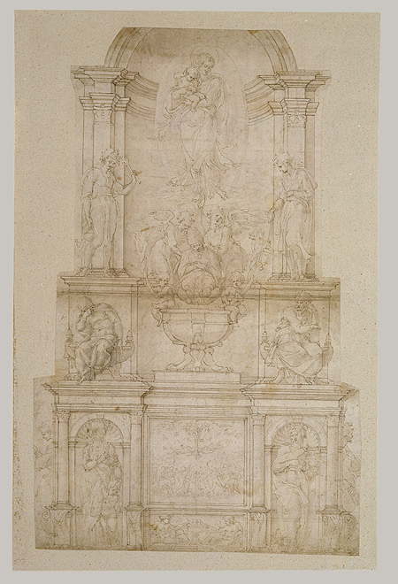 Michelangelo, 2nd Design for Julius II tomb